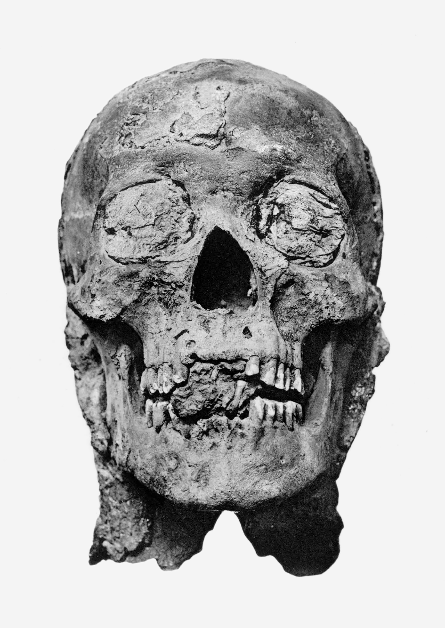 Head of mummy of parapoh Amenhotep III (profile view).